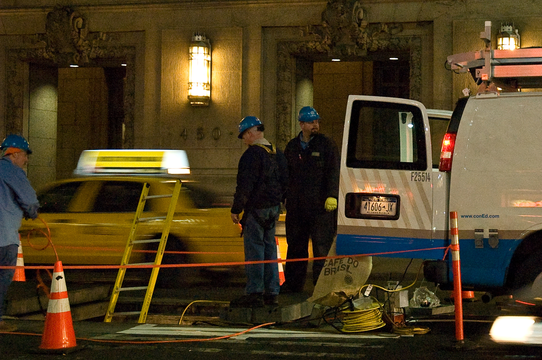 Consolidated Edison crew responding to a problem in Manhattan.